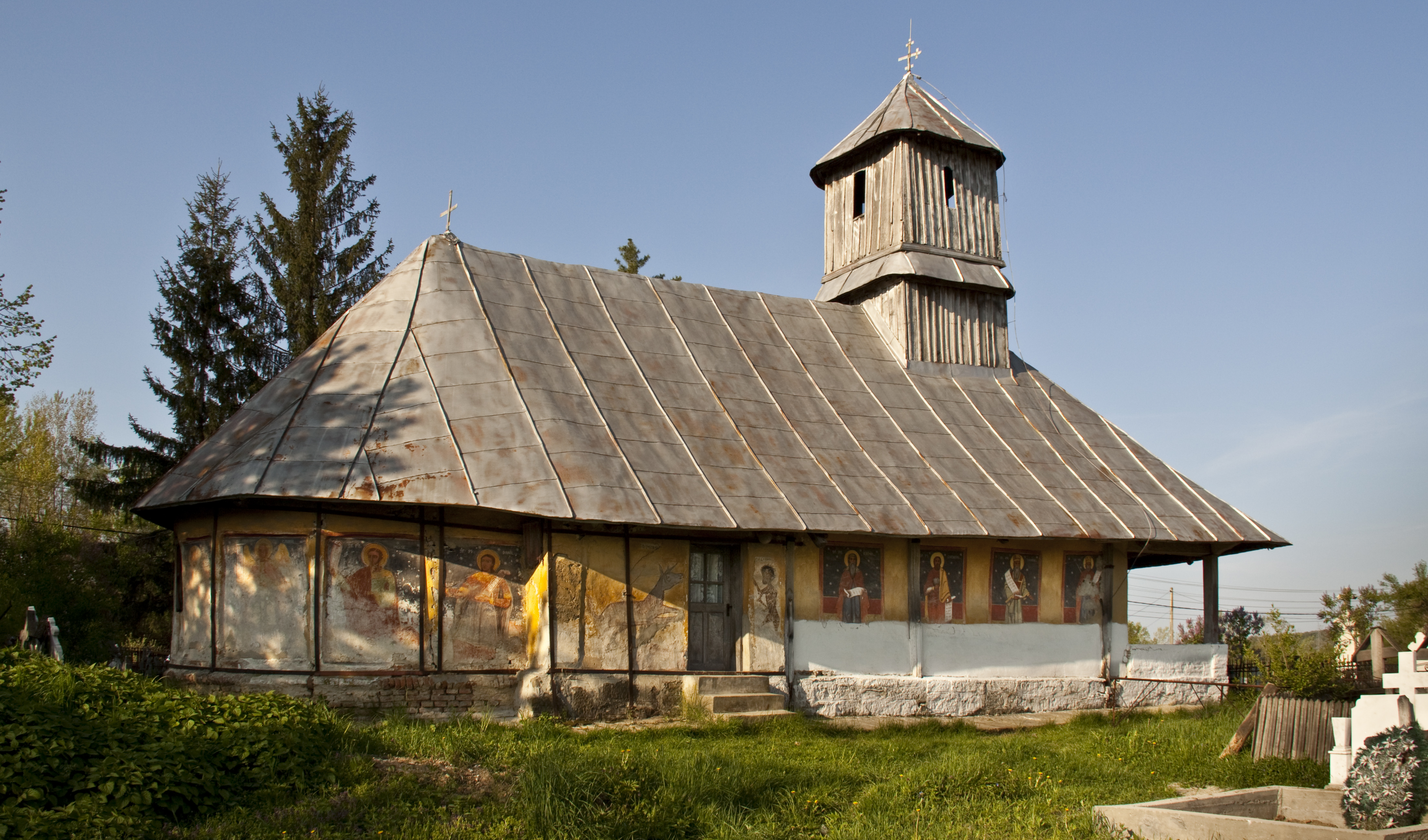 Dămţeni, Vâlcea county, Romania: the wooden church.